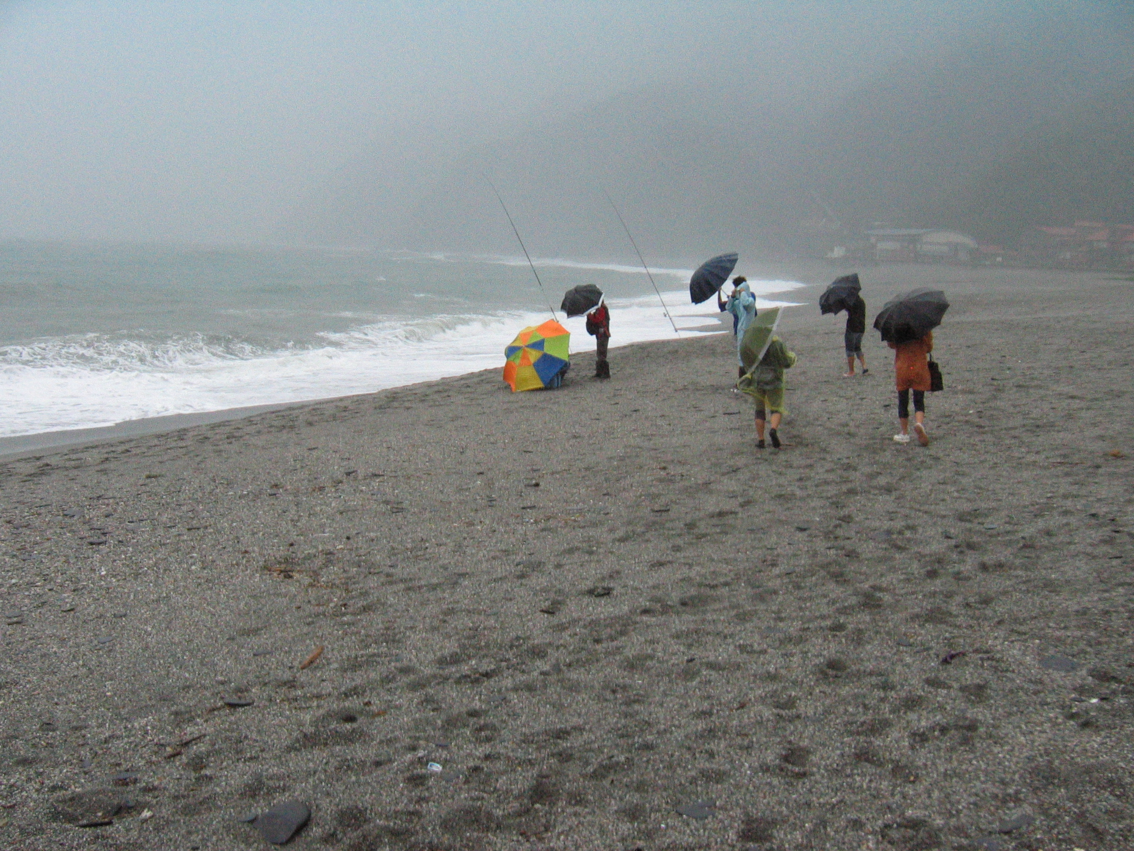 Beibin Park, Bad weather.